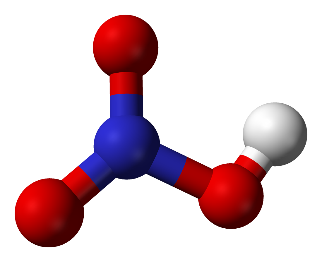 Ball-and-stick model of the nitric acid molecule, HNO3. Structural data obtained by microwave spectroscopy from A. Peter Cox and José M. Riveros (1965). "Microwave Spectrum and Structure of Nitric Acid". Journal of Chemical Physics 42: 3106-3112.